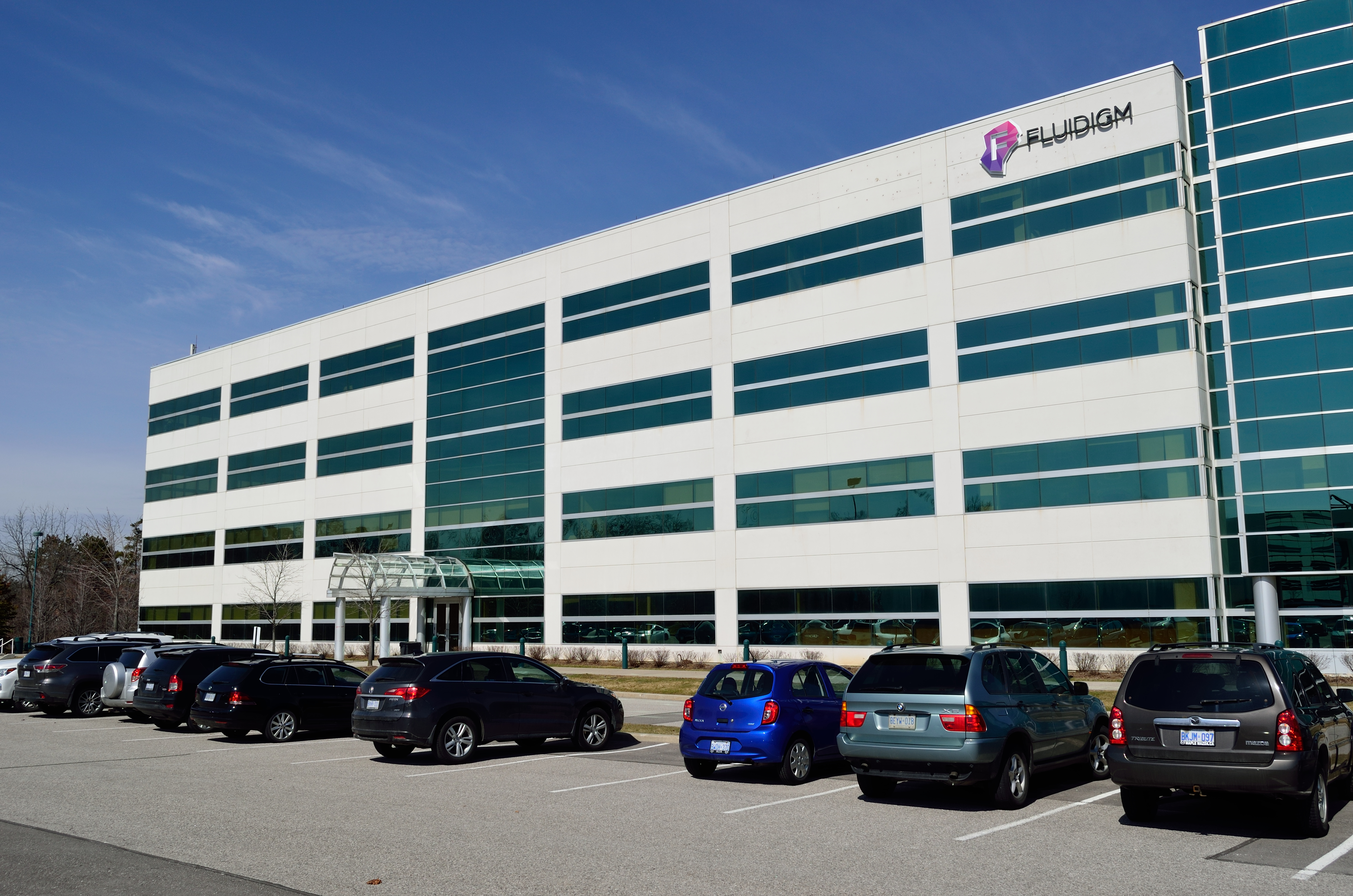 Fluidigm office in Markham